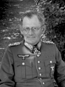 Title: Frankreich, Generäle v. Weichs Extra information: Frankreich.- General Maximilian von Weichs an gedecktem Tisch unter Bäumen sitzend; PK 670 People in the image: Weichs, Maximilian von Freiherr: Generalfeldmarschall, Ritterkreuz, Heer, Deutschland (GND 117235202) Factual corrections and alternative descriptions are encouraged separately from the original description. Additionally errors can be reported at this page to inform the Bundesarchiv. Original historic description